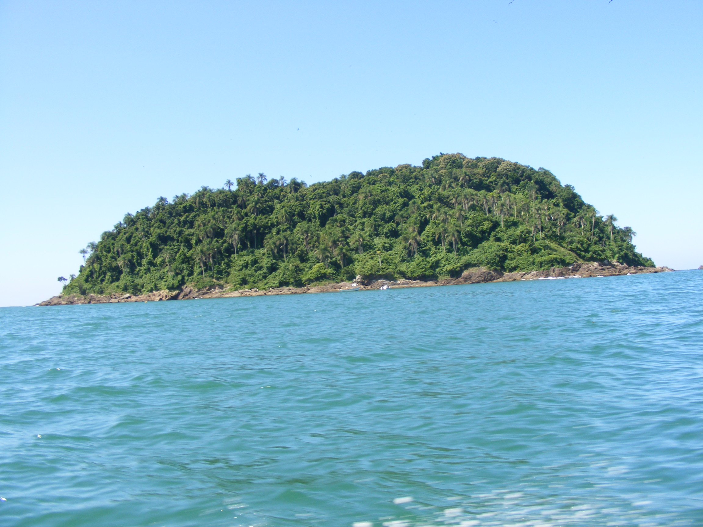 Photo of Ilha Feia (Ugly Island), located between the cities of Piçarras and Penha - Santa Catarina, Brazil